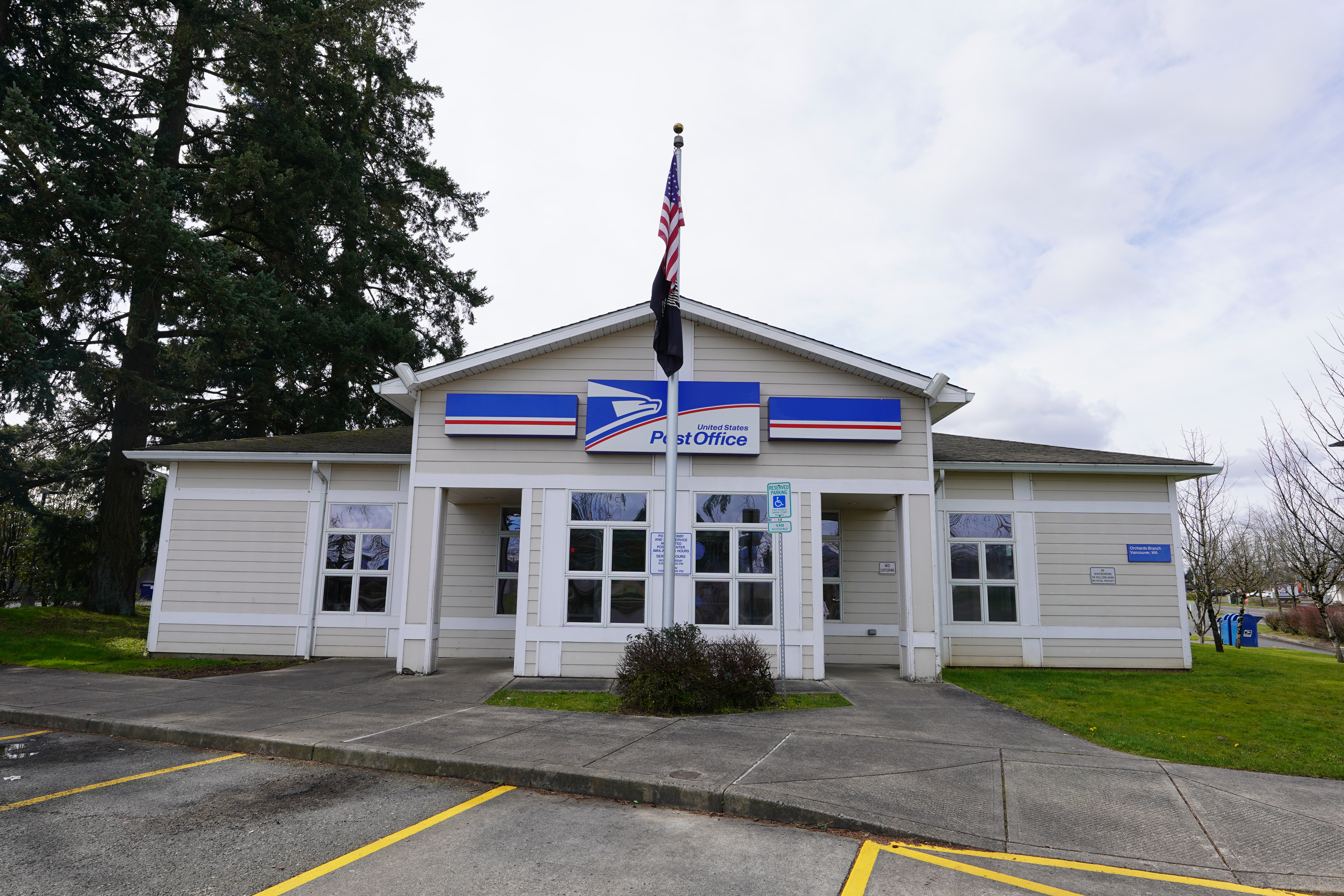 Shown is the Orchards Branch of the United States Post Office for Vancouver, Washington. Photograph taken on 2020-03-08T20:04:21Z.